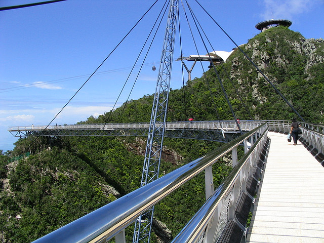 Bridge on top of a mountain - Langkawi